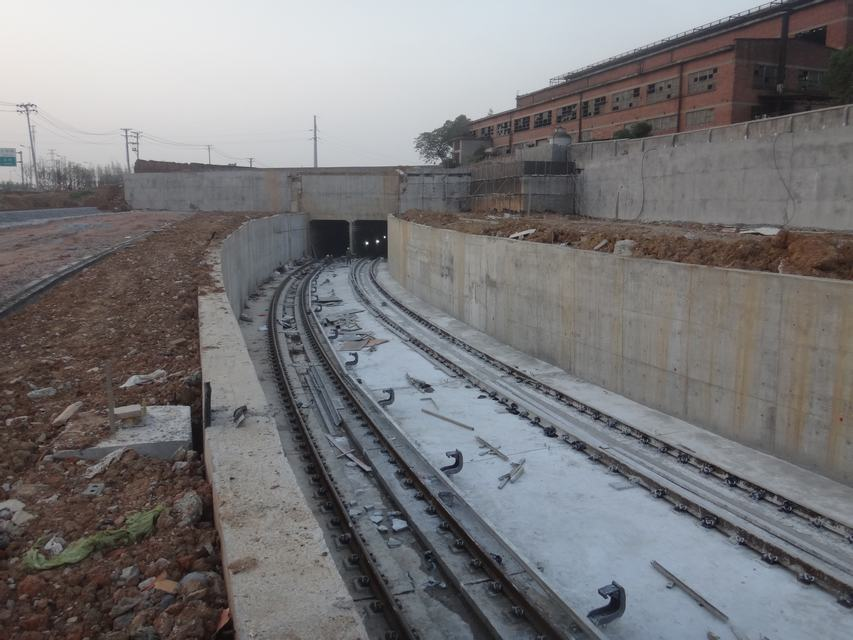 Wuhan metro line4's track